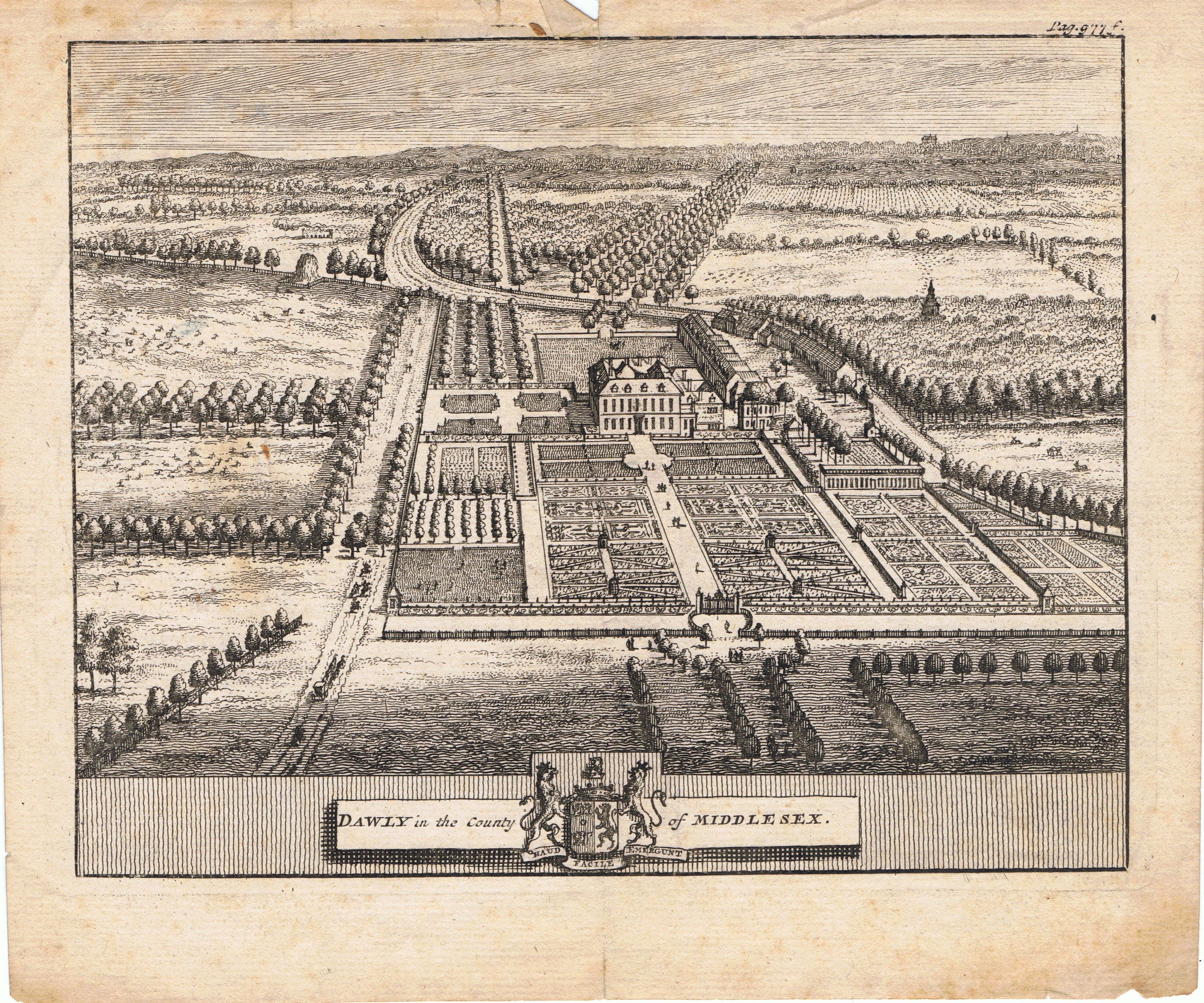 (Bolingbroke) St.John's Dawley, (previously Ld Arlington's) a Lysons repro of Kip's c1707 original. Scan of Lyson's c1800 version (R. de Salis, Oct. 2007).Rodolph 10:44, 1 November 2007 (UTC). Henry Jerome de Salis' parents (or brother Peter) bought this property in Dawley, Harlington in 1772. The mansion was soon demolished but the building on the left (east) remained until 1929